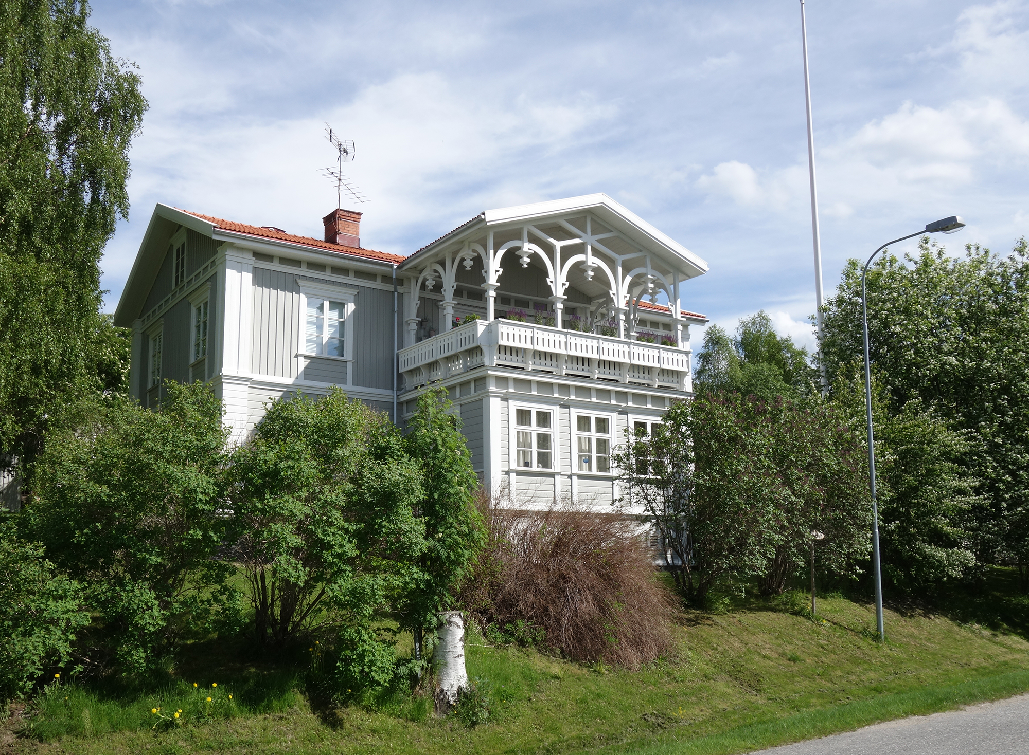 The old district court house in Degerfors (Vindeln), northern Sweden. The house was build around 1814 when the district court was created. It is now a listed building and a privat home.